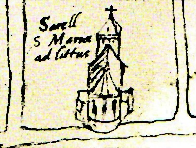 Maastricht, the Netherlands. View of the former chapel of Maria-ten-Oeveren at the location of the present-day Augustine Church at Kesselskade. Detail of a map by Simon de Bellomonte, c 1570.